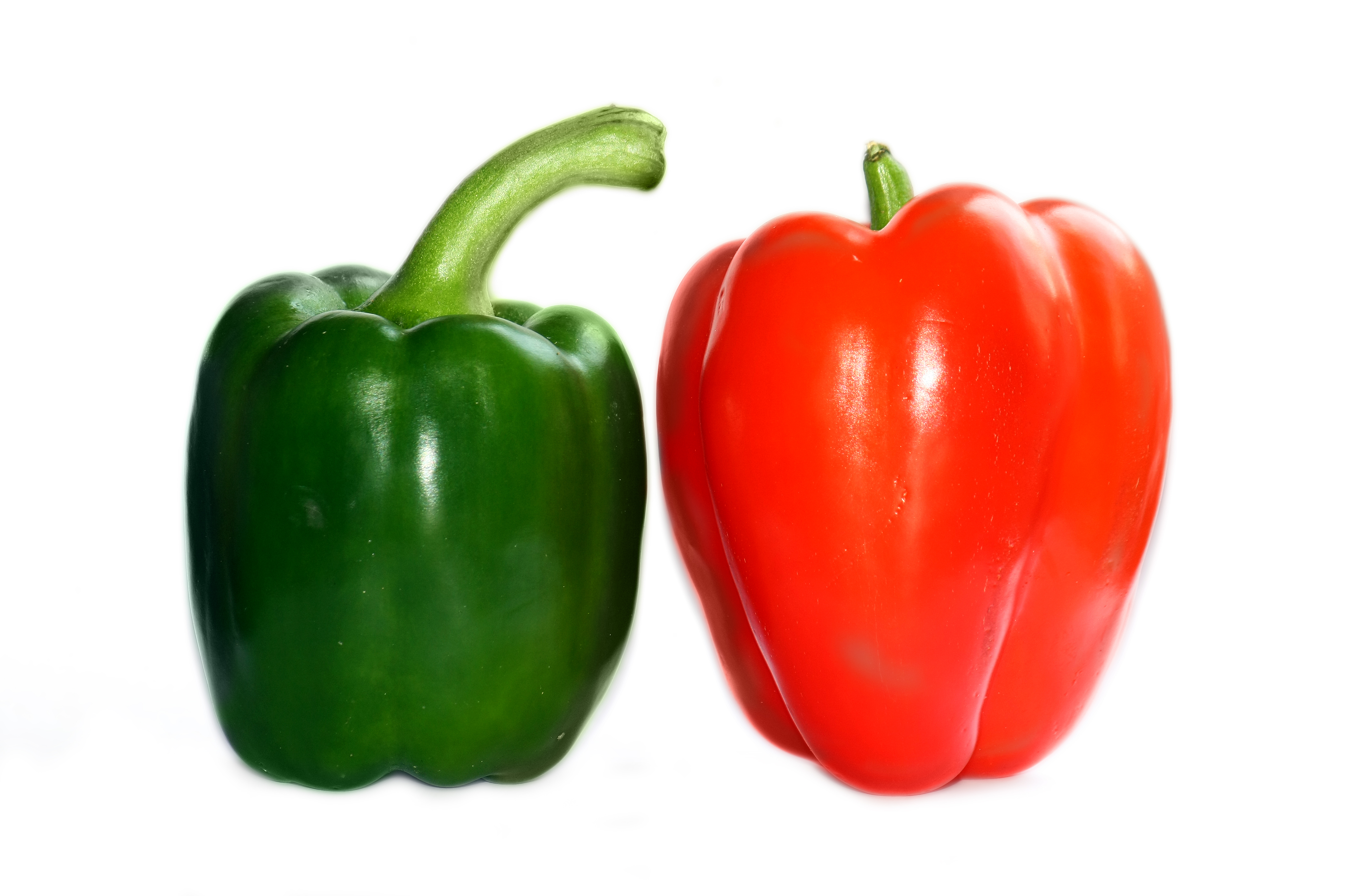 Red and green bell peppers